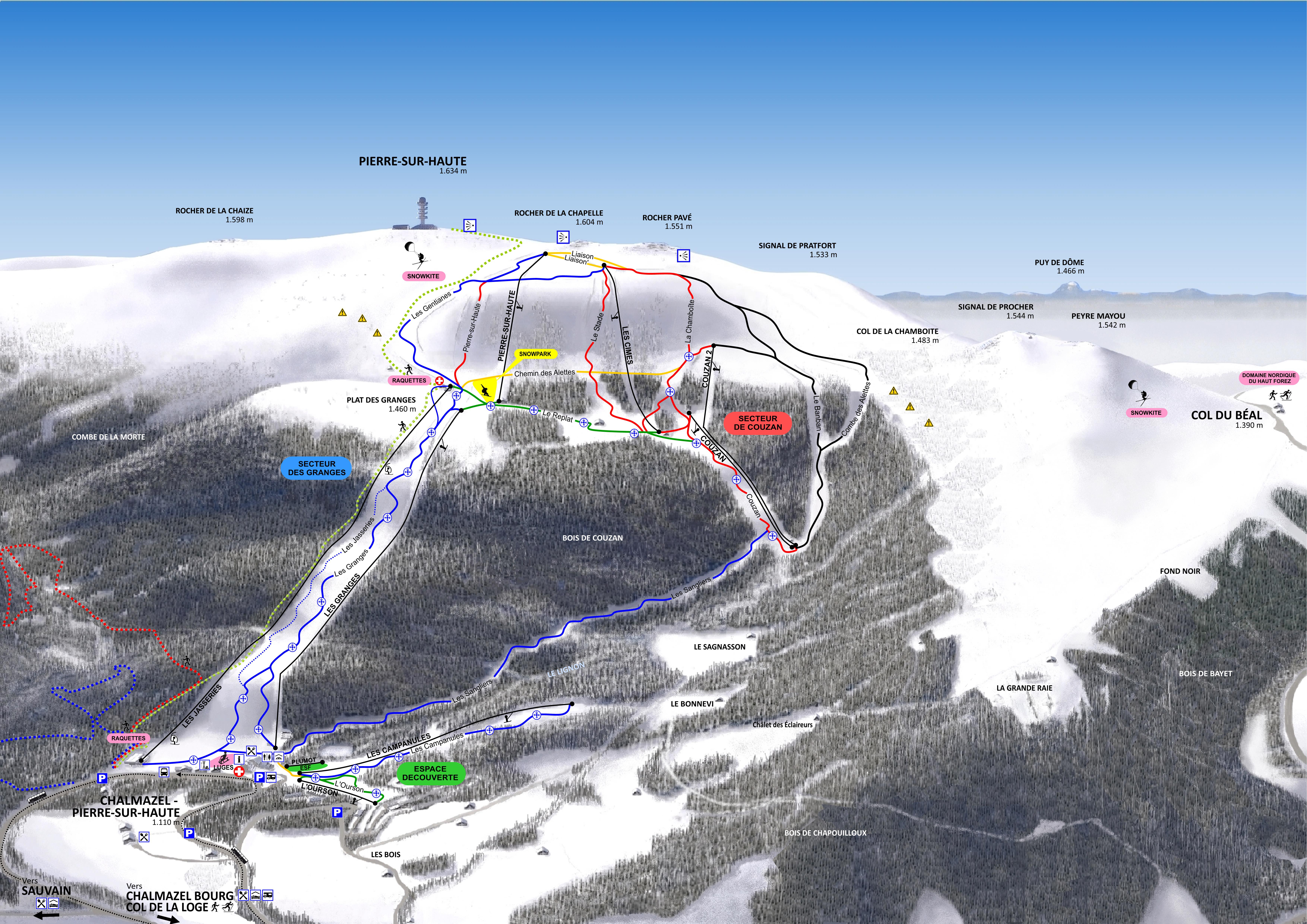 Map of Chalmazel Ski Resort